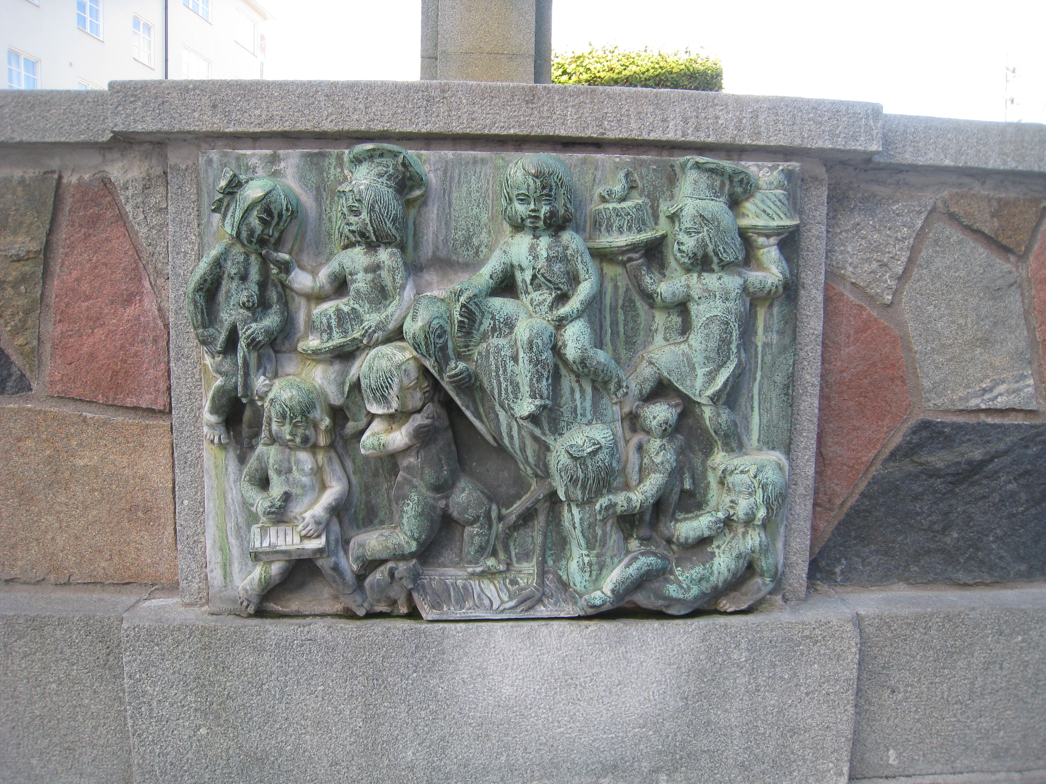 Bronsrelief över Marabou chokladfabrik, Sundbyberg. Industribrunnen med "Den lyckliga familjen", skulptur av skulptören Carl Fagerberg (1878-1948). Fontän på Sundbybergs torg med ett brunnskar kallat Industribrunnen.